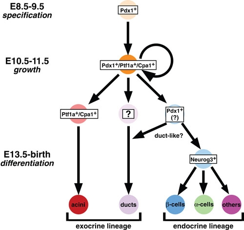 Pancreas specification within the foregut endoderm is first indicated by expression of the transcription factor Pdx1, which marks the progenitors of all exocrine and endocrine cell types. As the embryonic organ grows, multipotent progenitor cells also express the transcription factor Ptf1a and the digestive enzyme Cpa1. These progenitors are later segregated into specific sub-lineages, prior to differentiation. Acinar cells arise from precursors that express high levels of Ptf1a and Cpa1, while islet cells arise from precursors that transiently express the transcription factor Neurog3. Although Neurog3-expressing cells arise from duct-like epithelial progenitors (see Figure 2), the lineage relationship between these structures and the ducts of the mature organ is unclear (question marks).